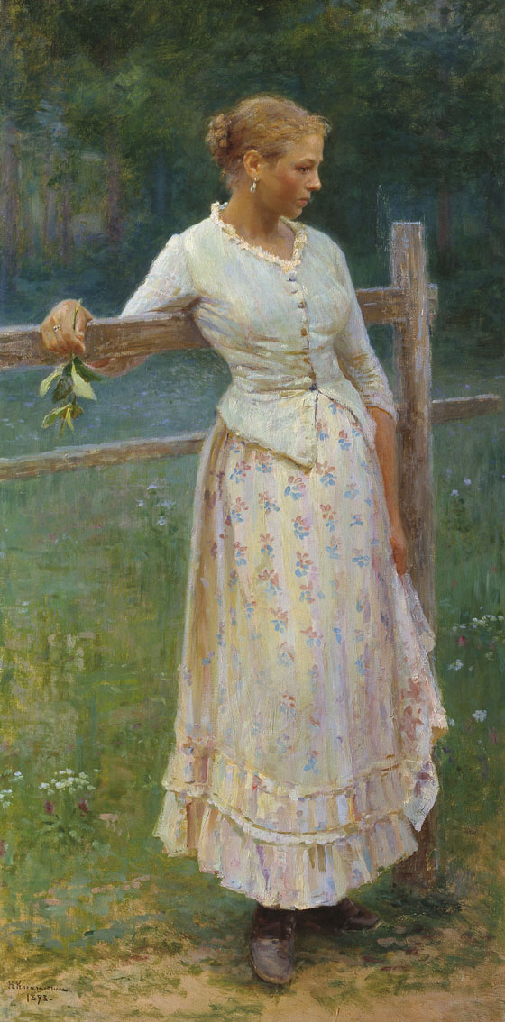 Girl near Fence. 1893